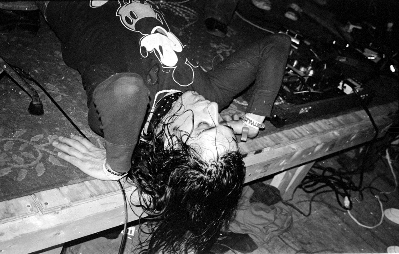 KFC (Providence, RI)